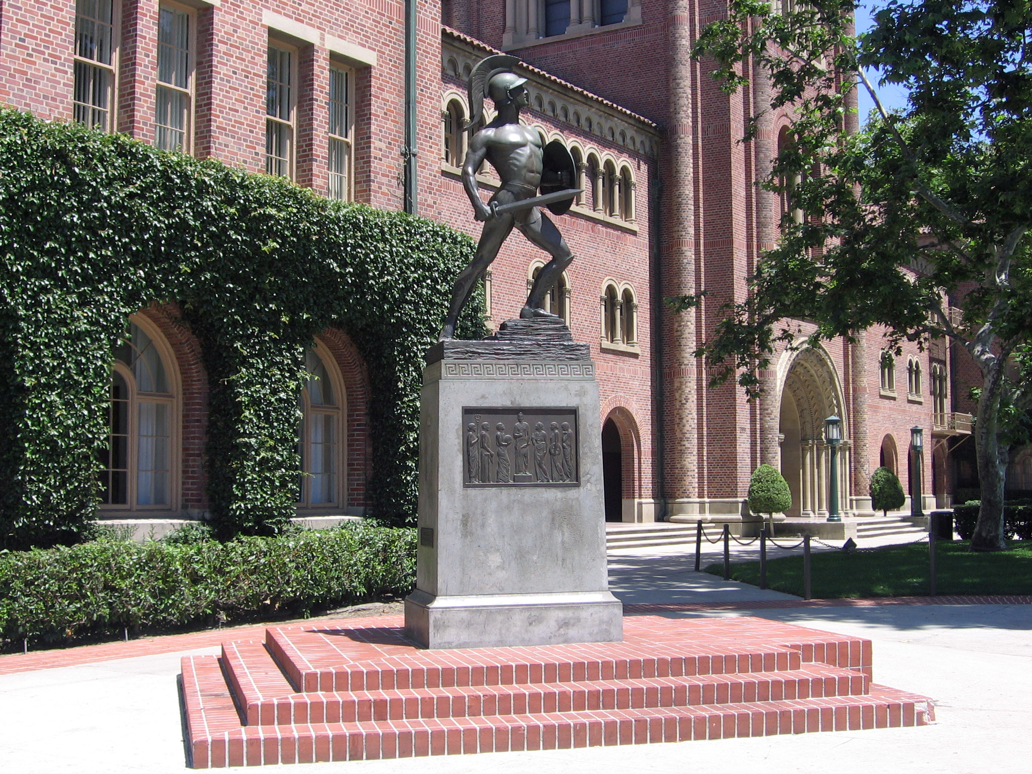 Trojan Shrine, also known as Tommy Trojan at the University of Southern California